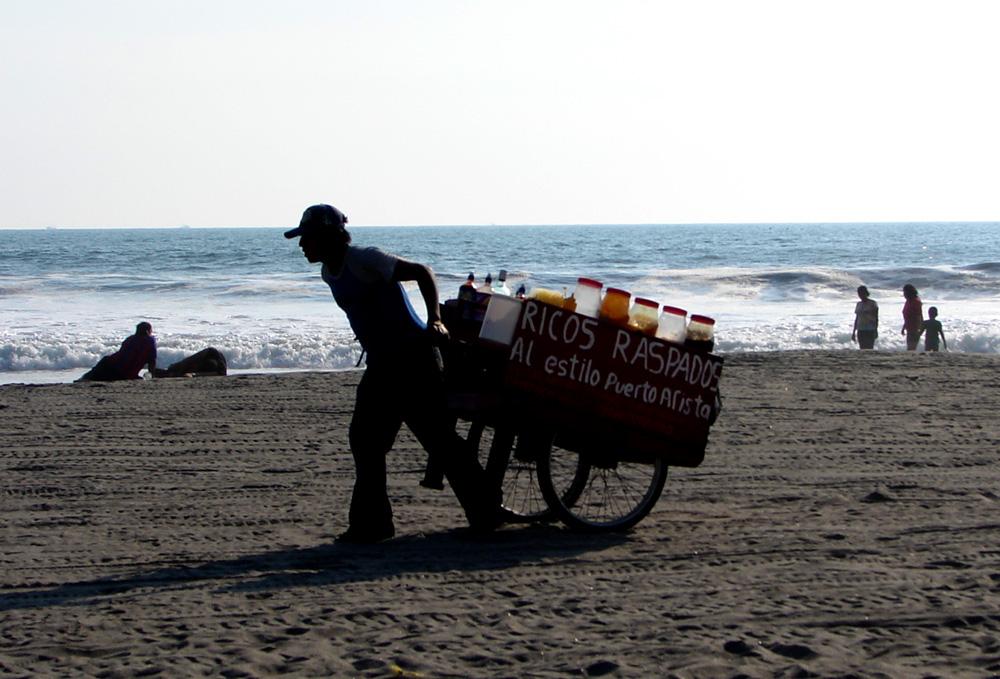 Strand von Puerto Arista (Chiapas, Mexico)